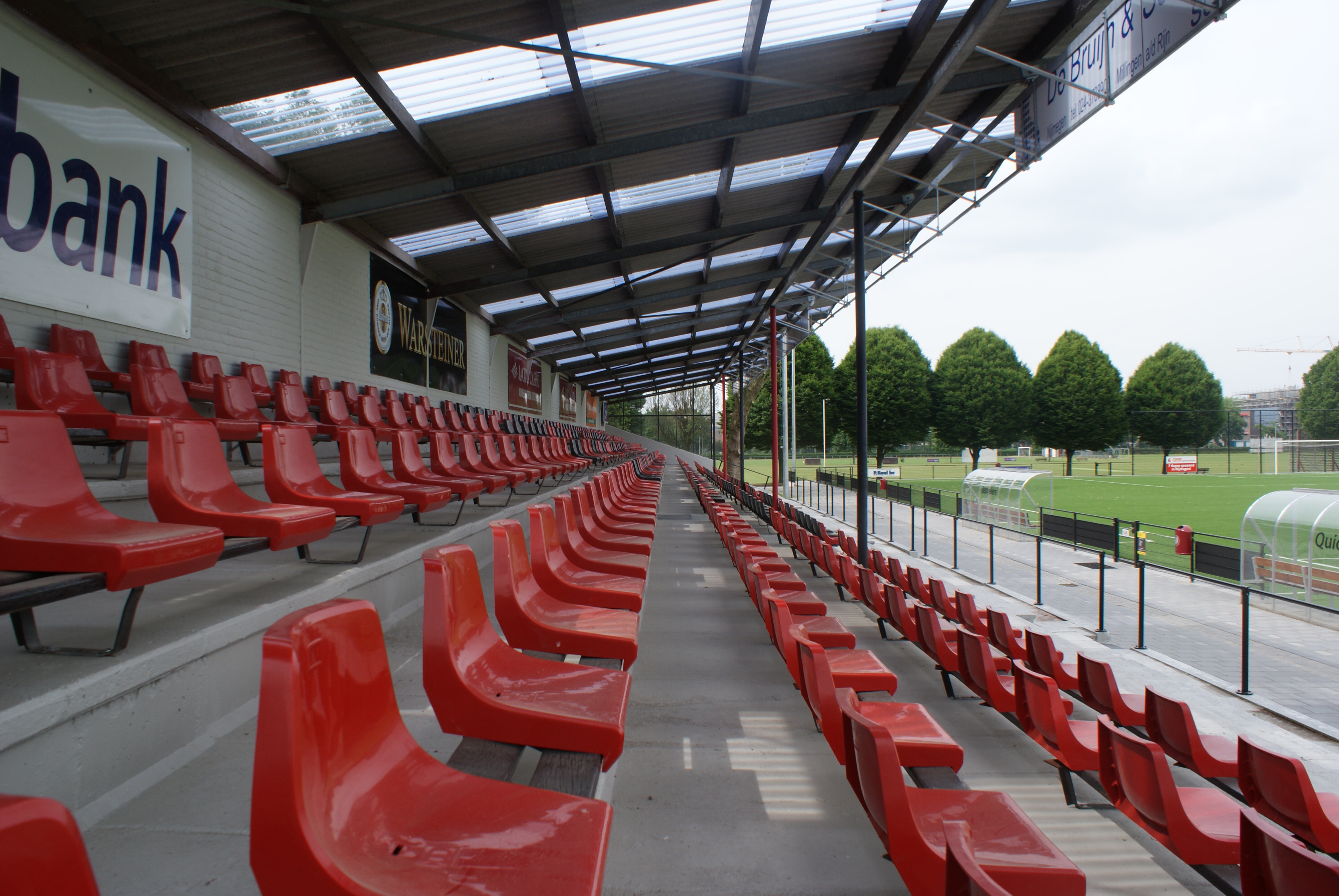 Stadion De Dennen Quick 1888